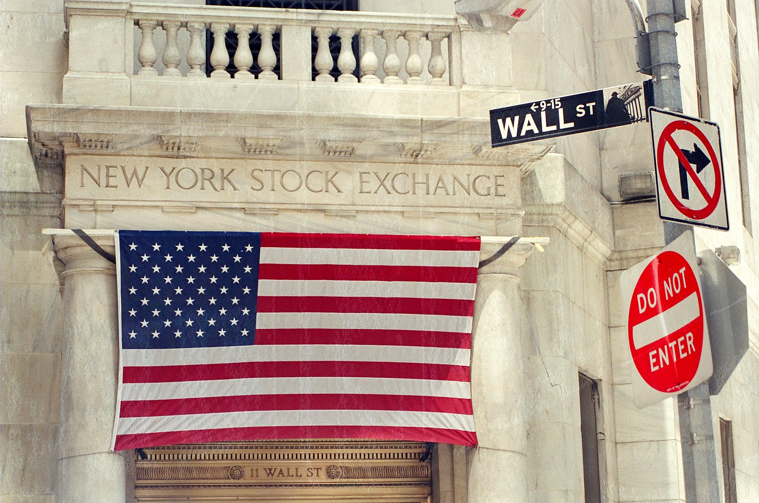 NYSE on Wall Street